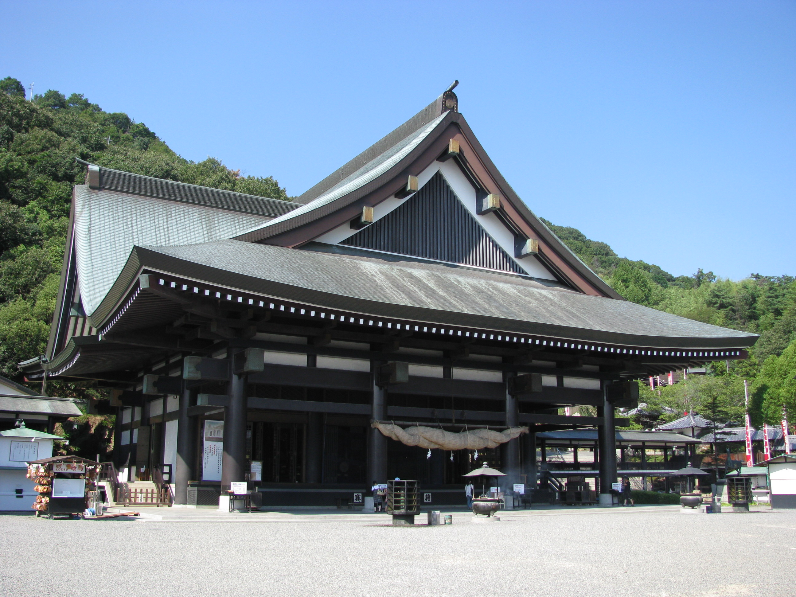 The Saijo Inari. This place is Kita-ku, Okayama, Okayama Prefecture, Japan.